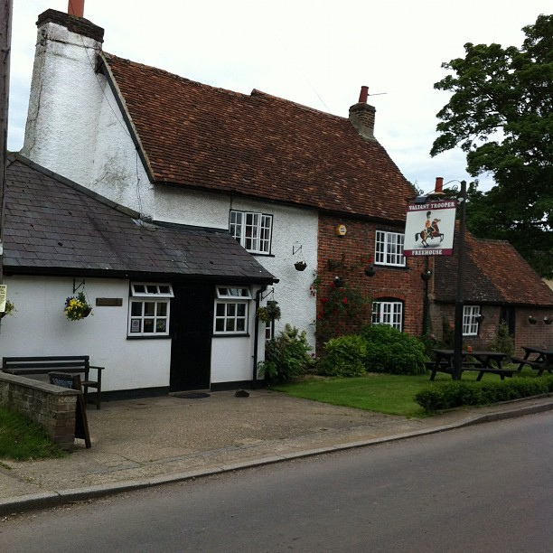 Valiant Trooper pub, Aldbury, Hertfordshire